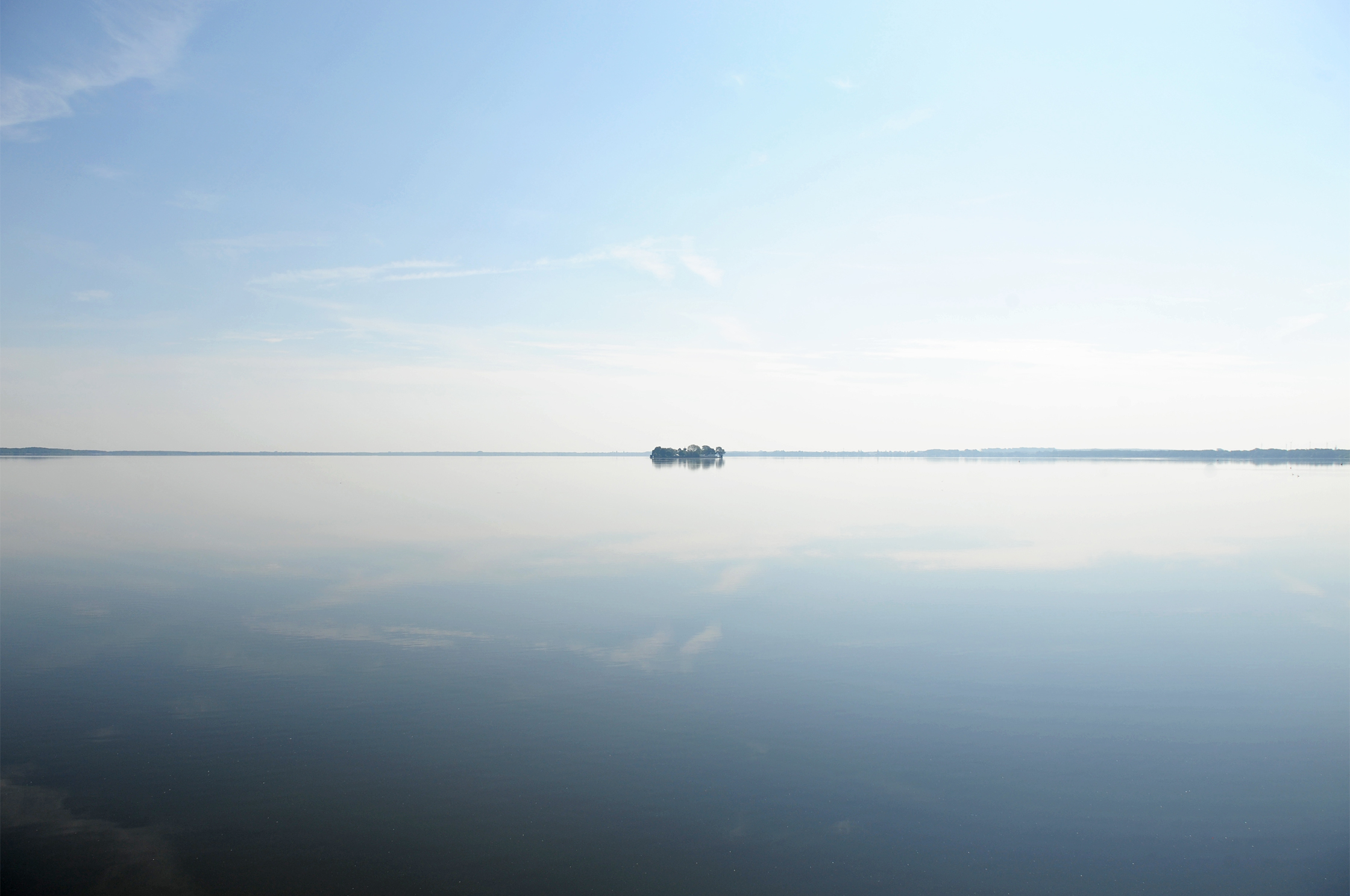 Calmness of the dawn at Steinhuder Meer. View from the observation tower"Meerbruchwiesen" onto the lake. Steinhuder Meer nature park, Lower Saxony, Germany.